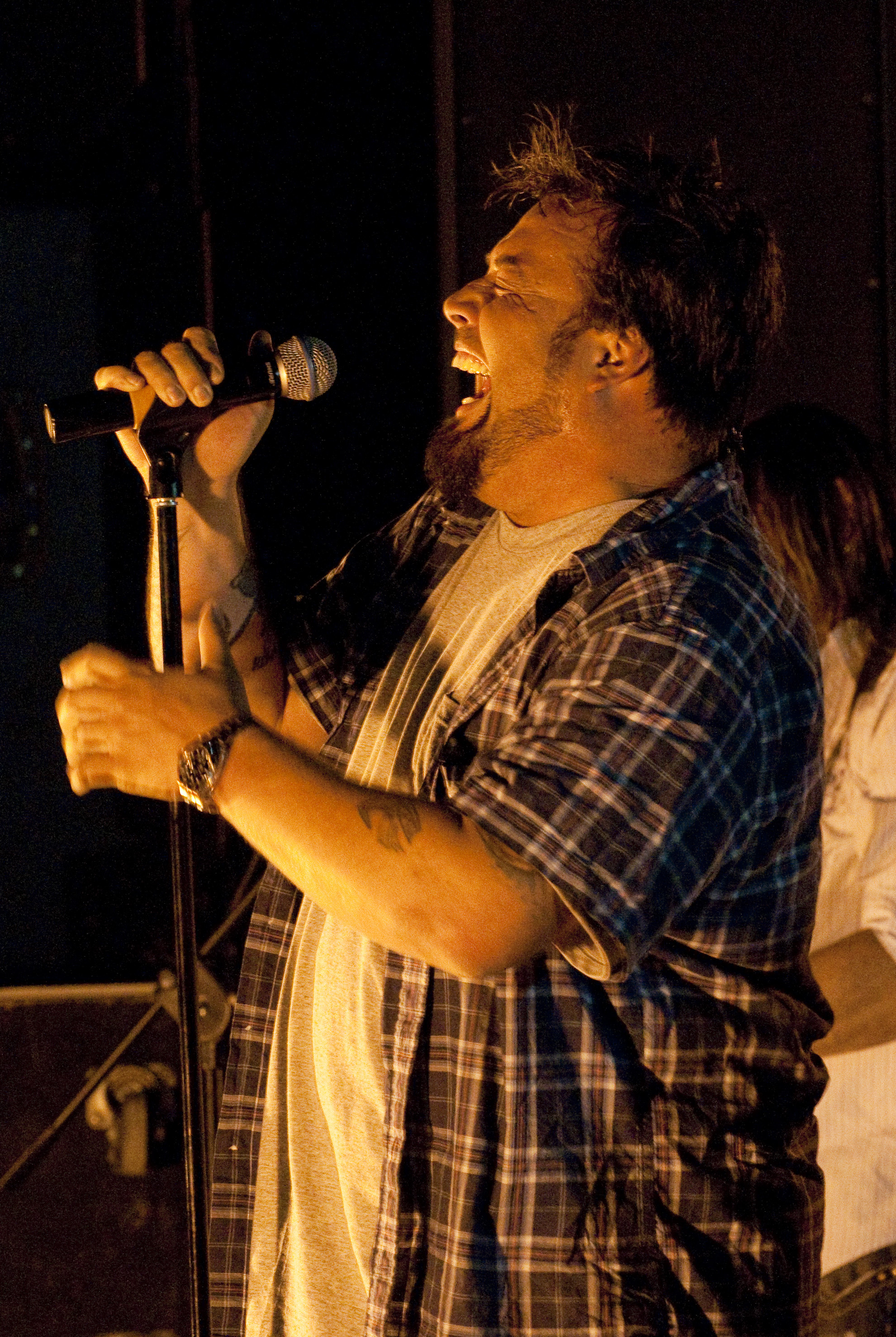 Rock star Uncle Kracker entertains a crowd of several hundred deployed service members at Camp Striker, Iraq during a concert July 2. The Detroit-based singer and songwriter, who was visiting Iraq for the first time, thanked the crowd for their service and spent a couple hours after the show signing autographs for service members and civilians.